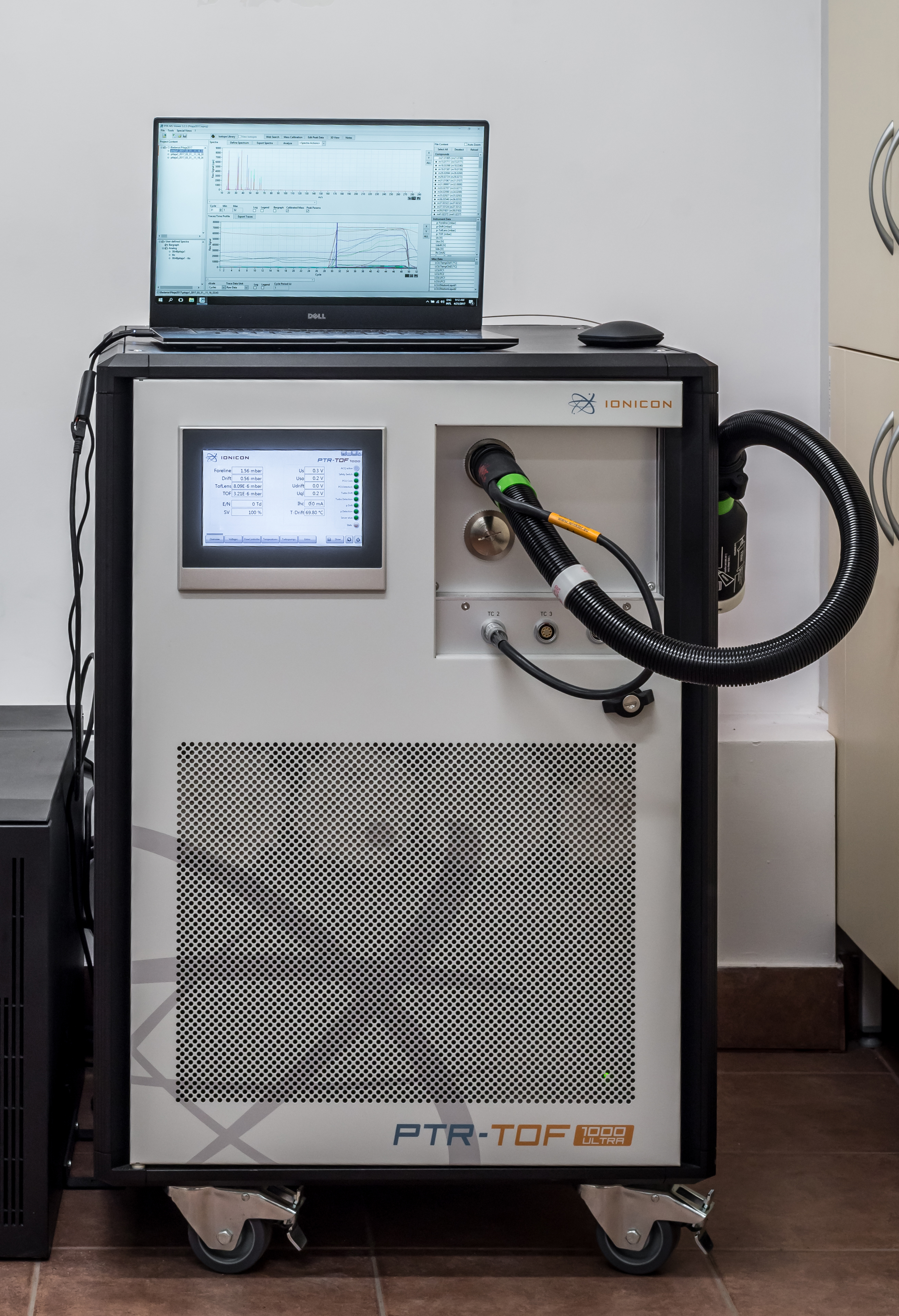 IONICON PTR-TOF 1000 Proton Transfer Reaction Mass Spectrometer with Time of Flight analyzer allows for qualitative and quantitative determination of a wide variety of gaseous substances at ppt levels in real time. Applications include e.g.: medicine, biotechnology, industrial process monitoring, atmospheric and environmental chemistry, food and atmospheric science. Chemical Faculty of Gdansk University of Technology, Poland.